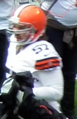 Cleveland Browns long snapper Christian Yount before a game in 2012